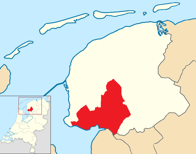 De Fryske Marren, municipality in Friesland, Netherlands, 2018